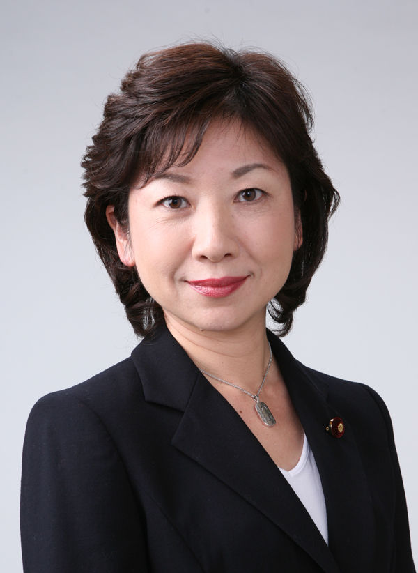 Seiko Noda was inaugurated as Minister of State for Science and Technology Policy on September, 2008.